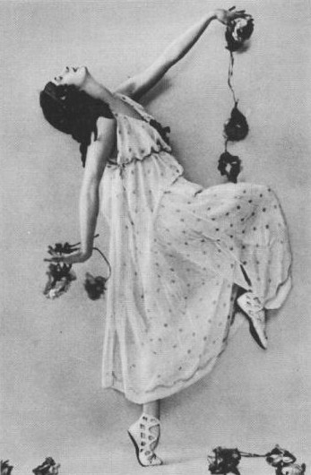 Photo of the ballerina Anna Pavlova (1881-1931) as a bacchante in Bacchanale by Mikhail Mordkin. Berlin, c. 1913.